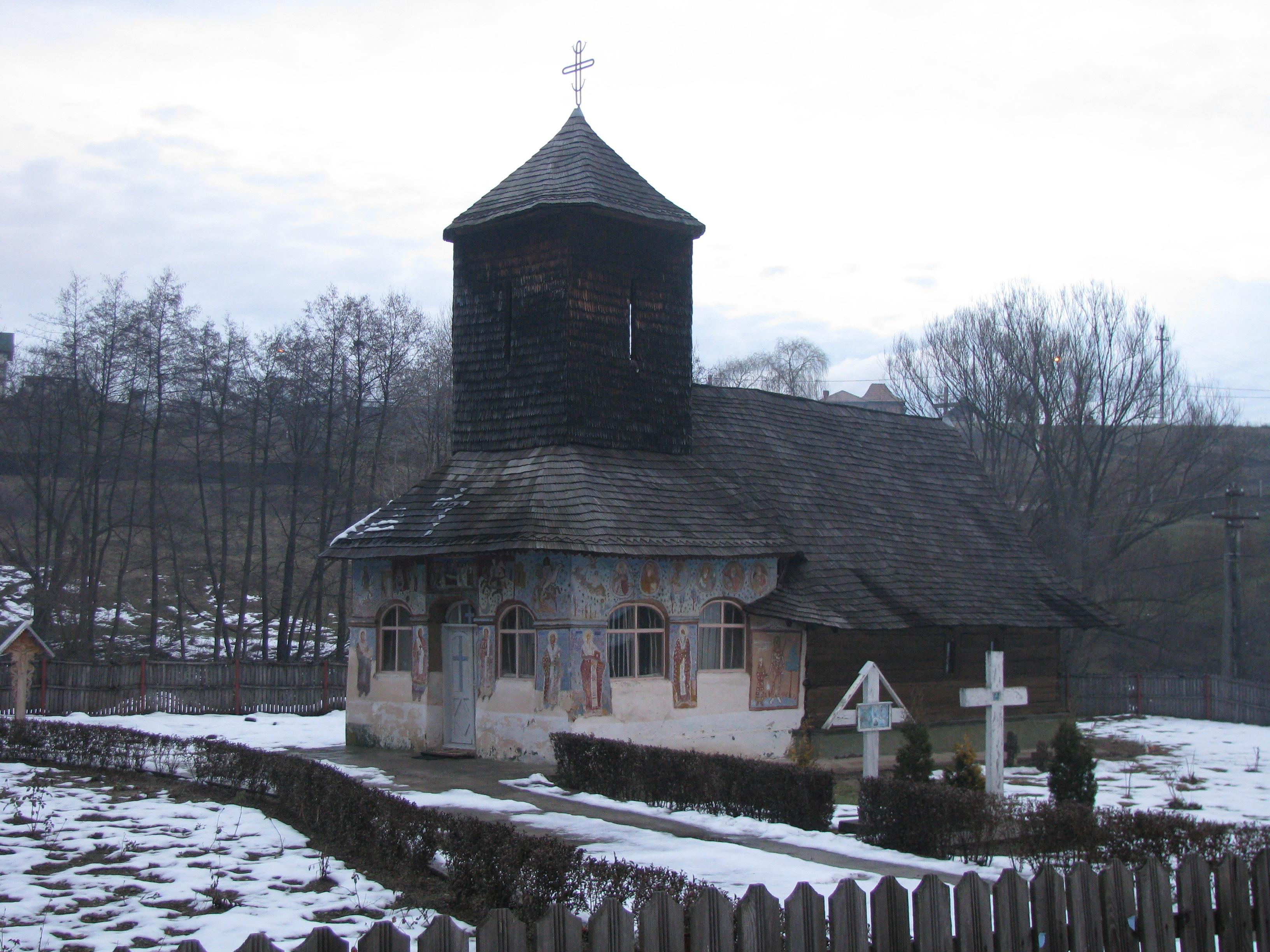 Wooden church "Adormirea Maicii Domnului" from Glâmbocu village, Bascov commune, Argeș county, Romania